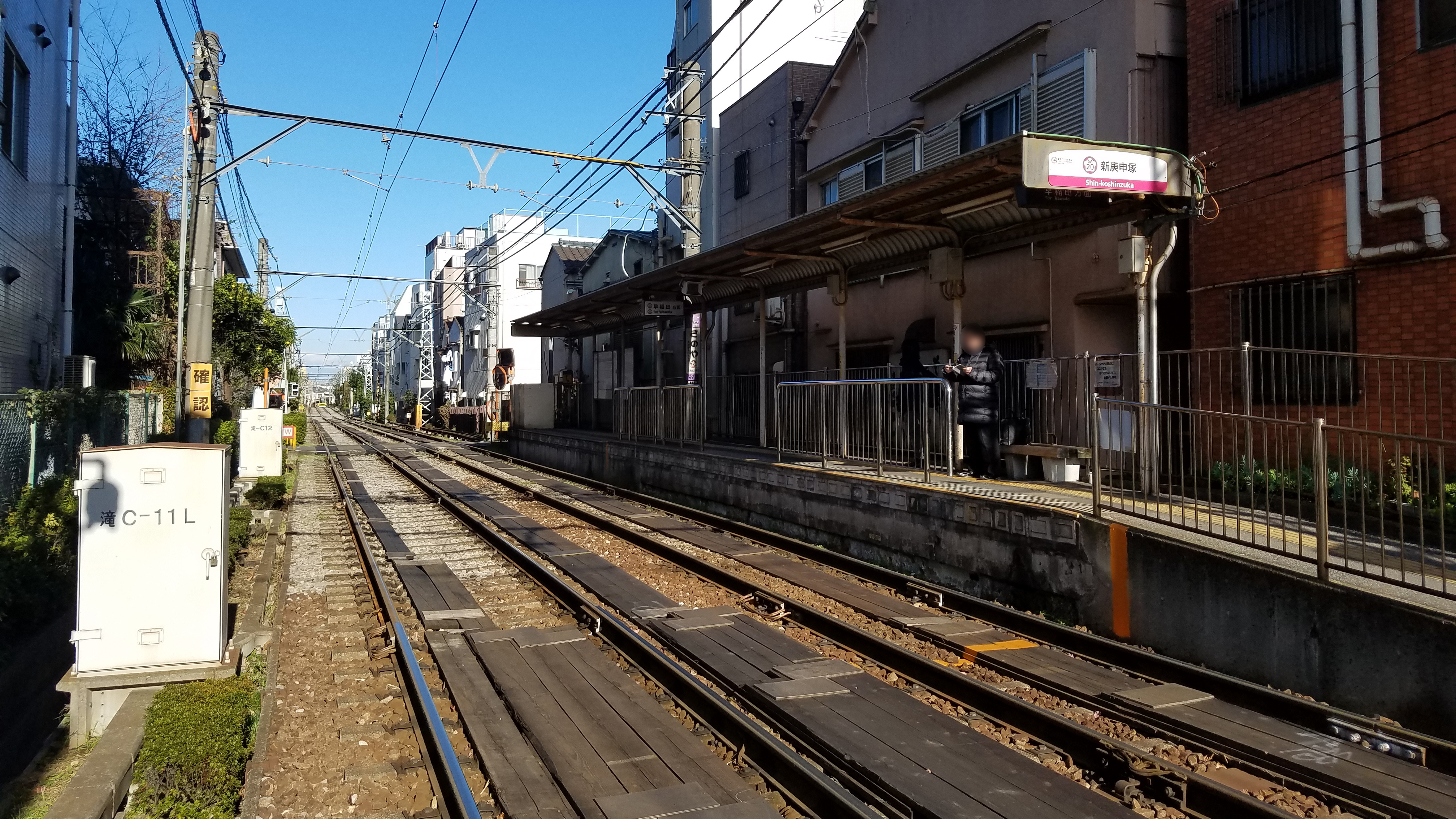 The Waseda-bound platform at Shin-koshinzuka Station on the Toden Arakawa Line(Tokyo Sakura Tram) in Toshima city, Tokyo, Japan